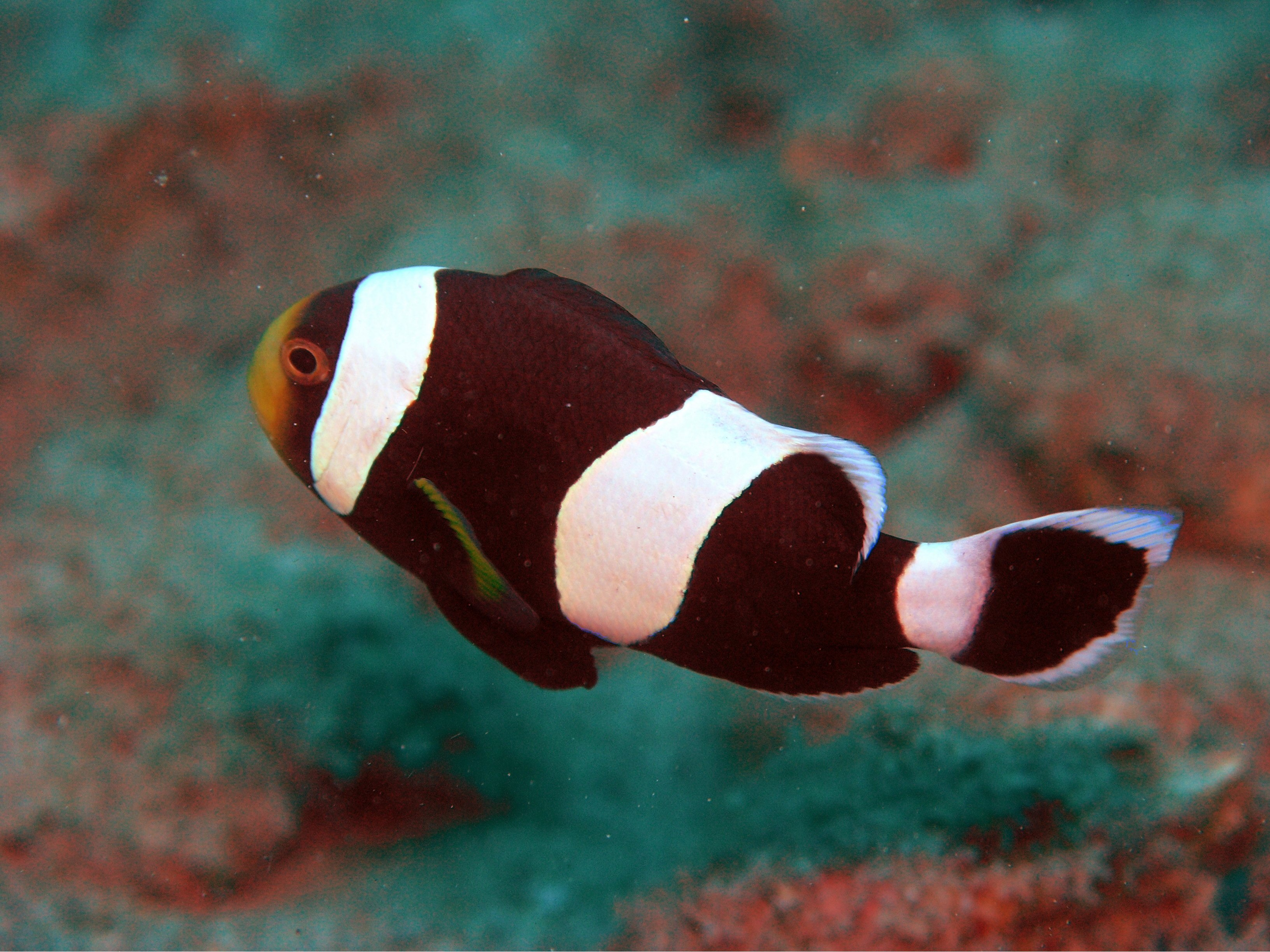 Edit of Image:Amphiprion_Species.JPG - adjusted color levels